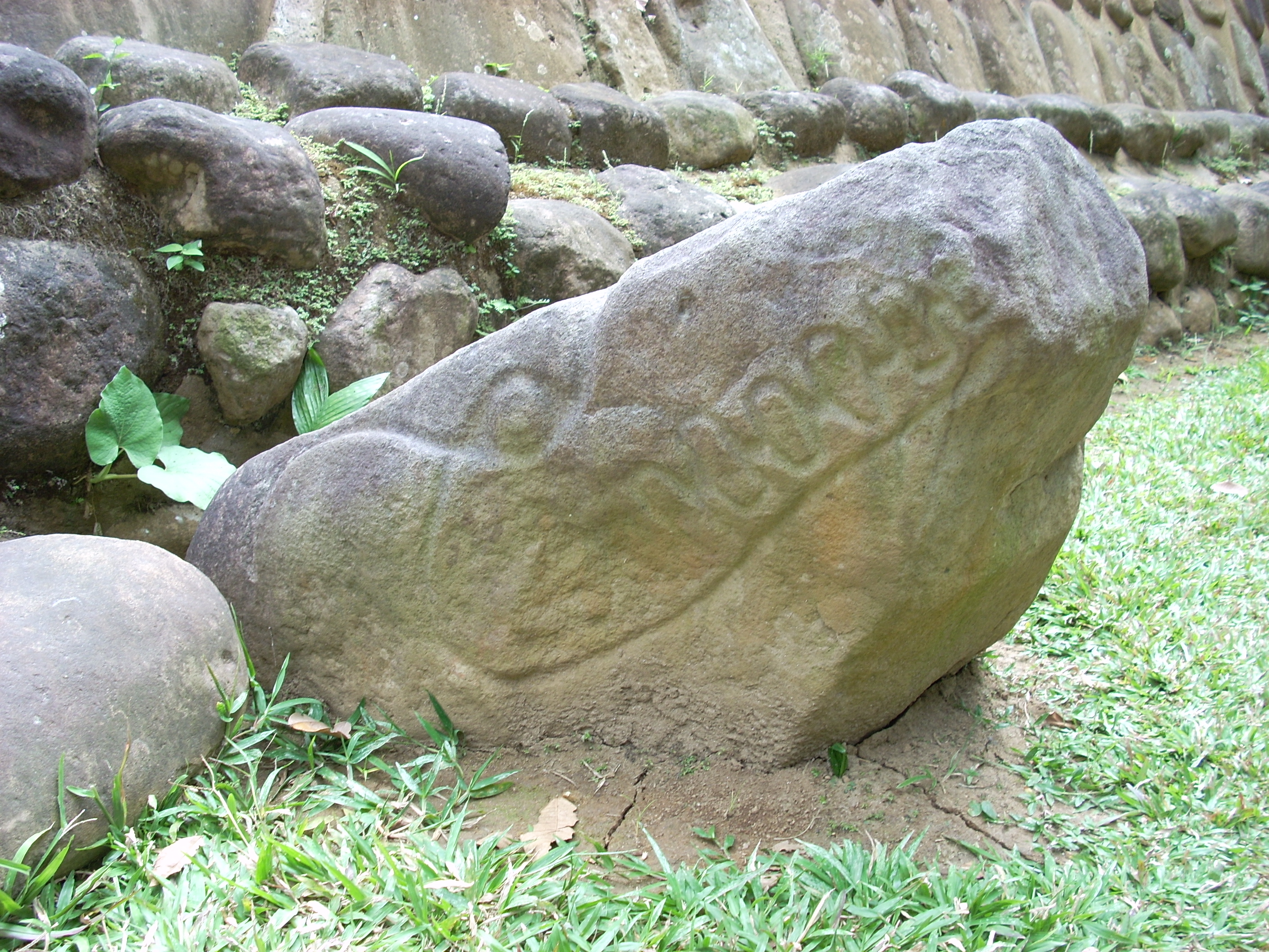 Monument 66 at Takalik Abaj, representing the head of a crocodile.